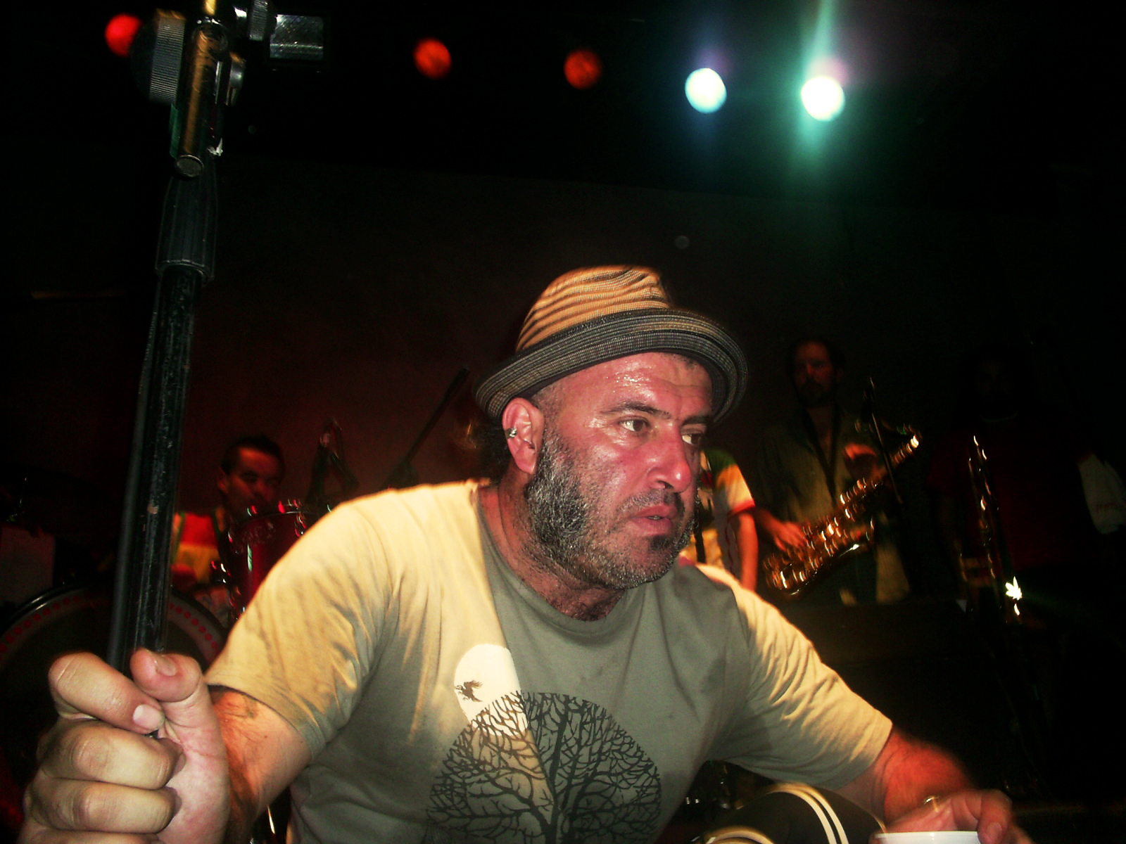 Chico Trujillo performing in Galpón Victor Jara